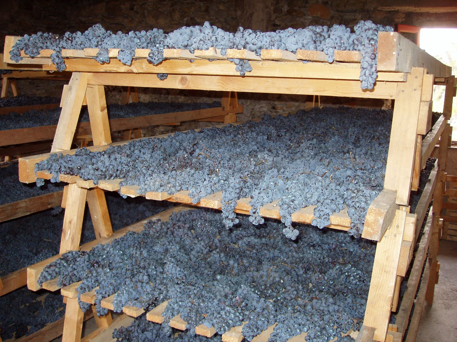 Freshly harvested Nebbiolo grapes drying on racks.